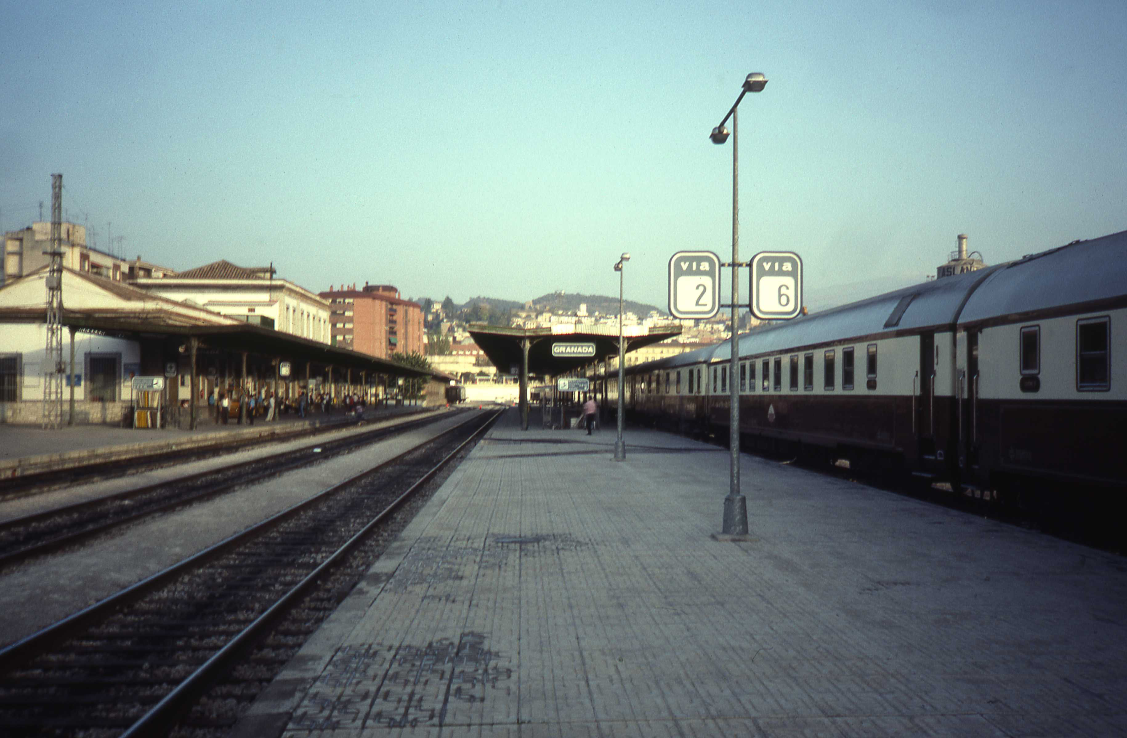 Station Granada with the Al Andalus express train parked for the day excursion